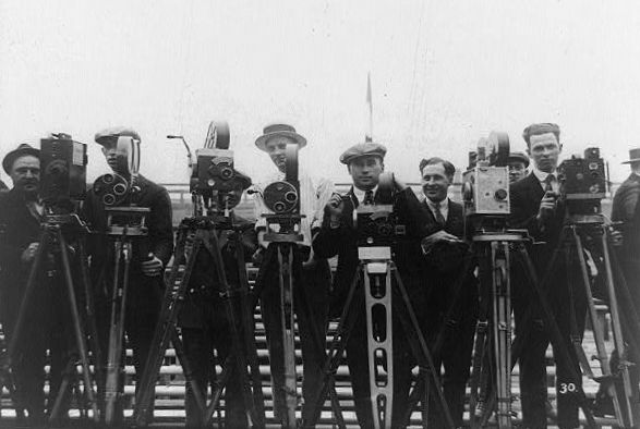 Newsreel cameramen with cameras at the Dempsey-Carpentier boxing match at Boyle's Thirty Acres, Jersey City, N.J.